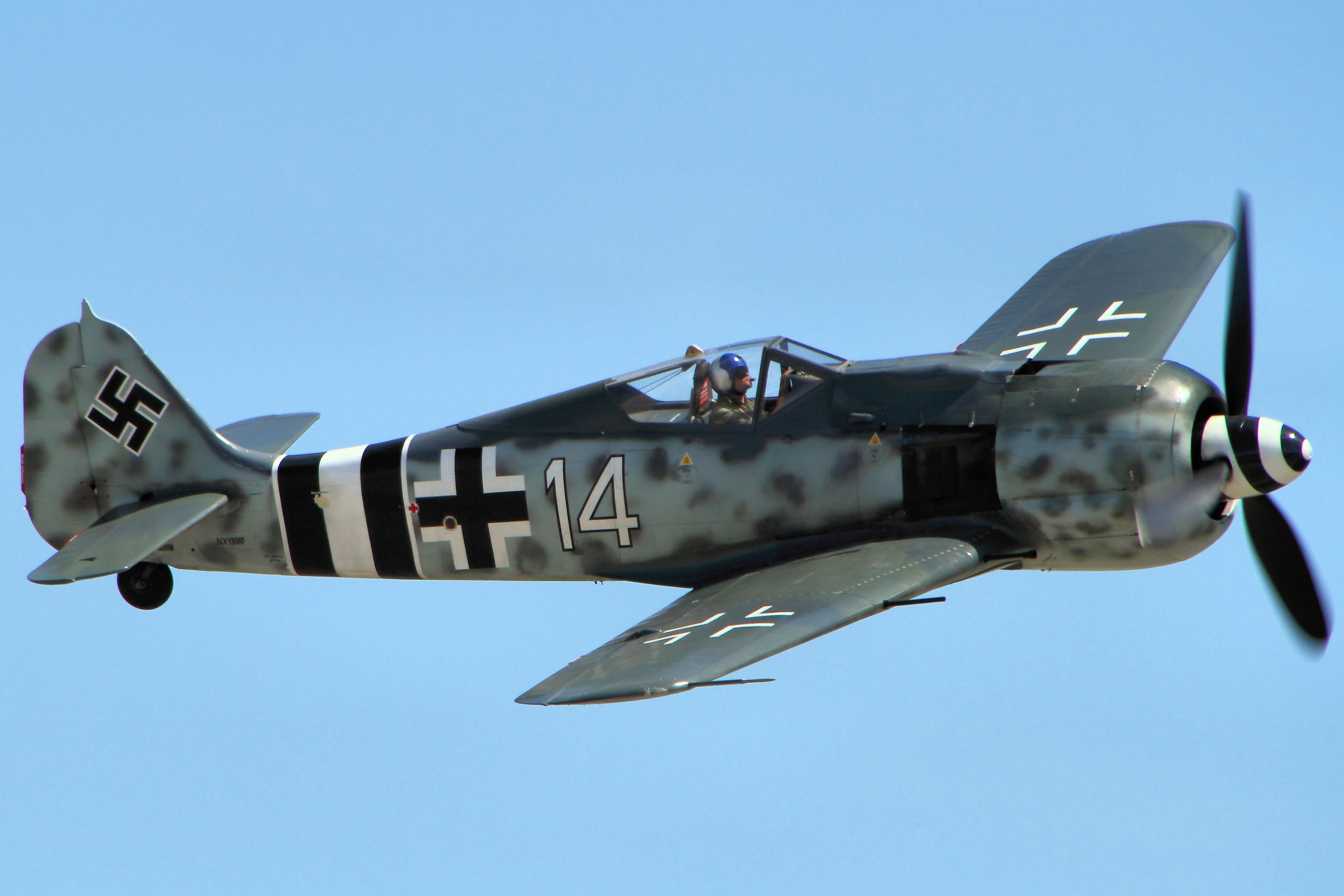 FW190 - Chino Airshow 2014